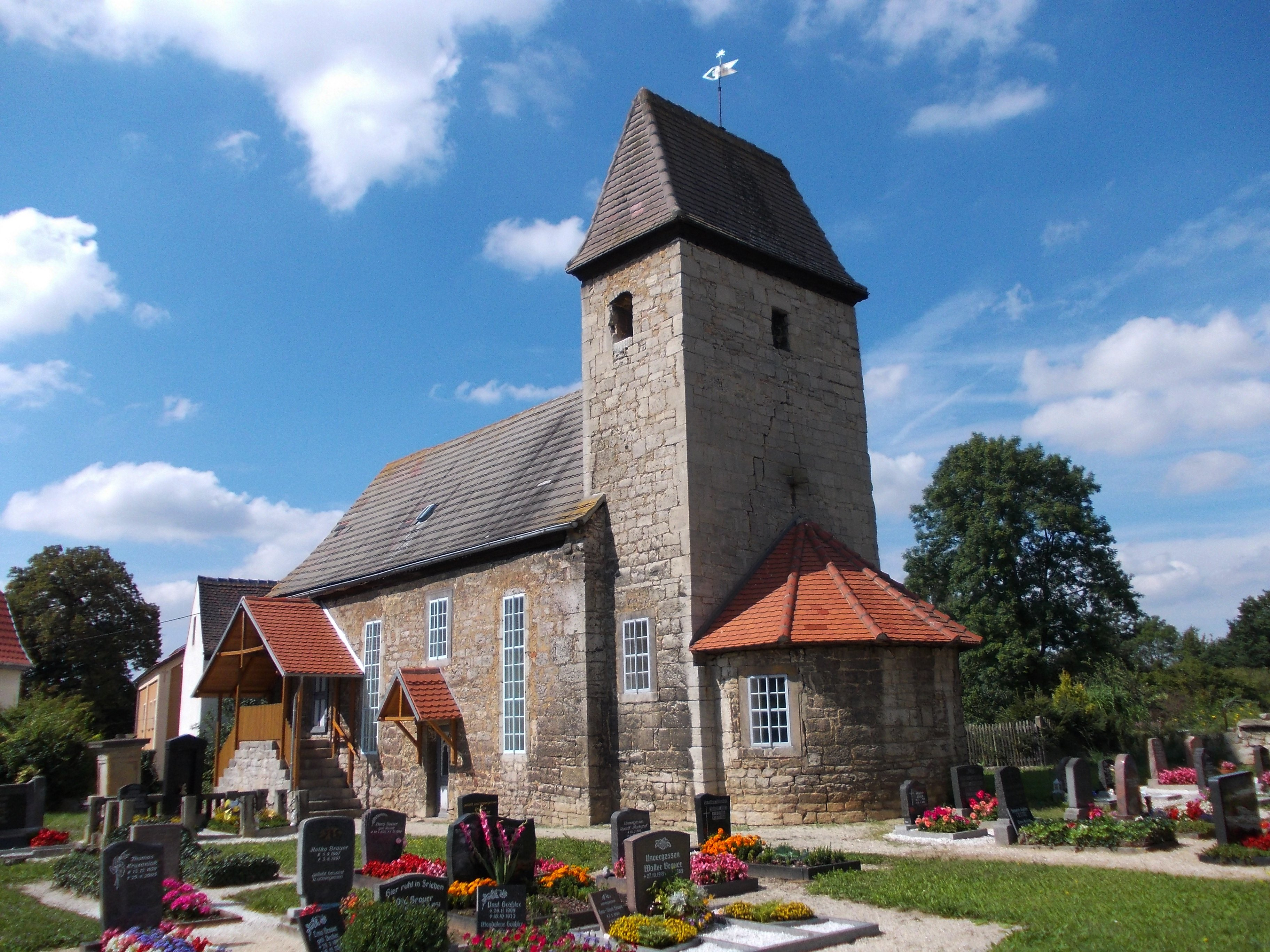 Kleingestewitz church (Molauer Land, district of Burgenlandkreis, Saxony-Anhalt)